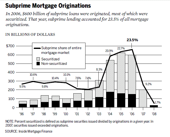 Chart of rise and decline of subprime mortgage industry in the United States 1996-2008.